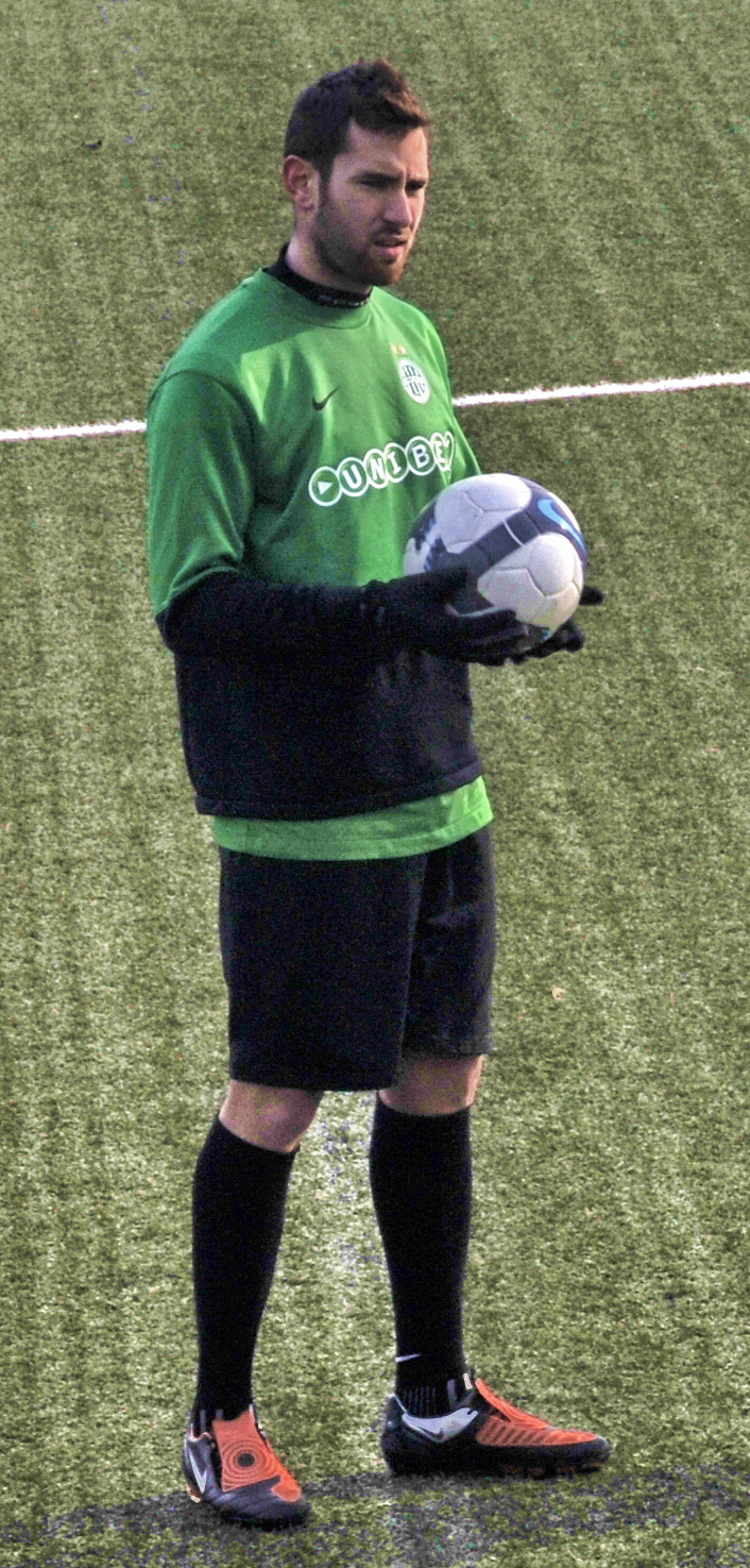 Carlos Alcantara, Spanish association football player.